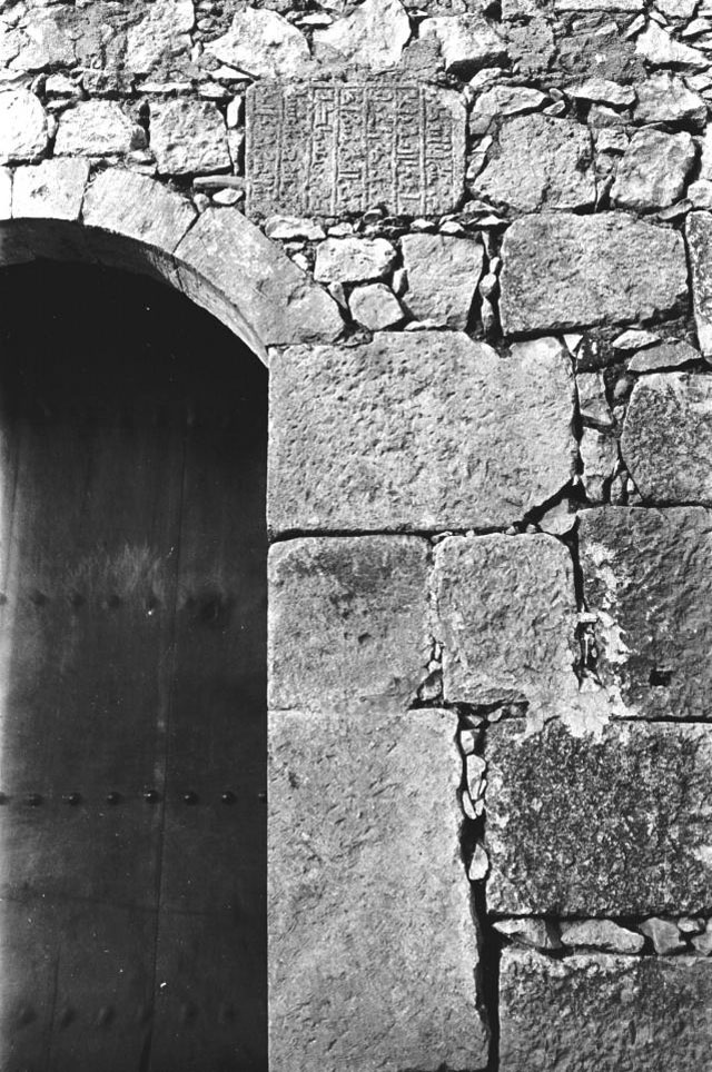 N wall. 3. Merwanid Ahmad c. 410 H [City Wall - detail of N wall showing carved Arabic inscription - Merwanid Ahmad]